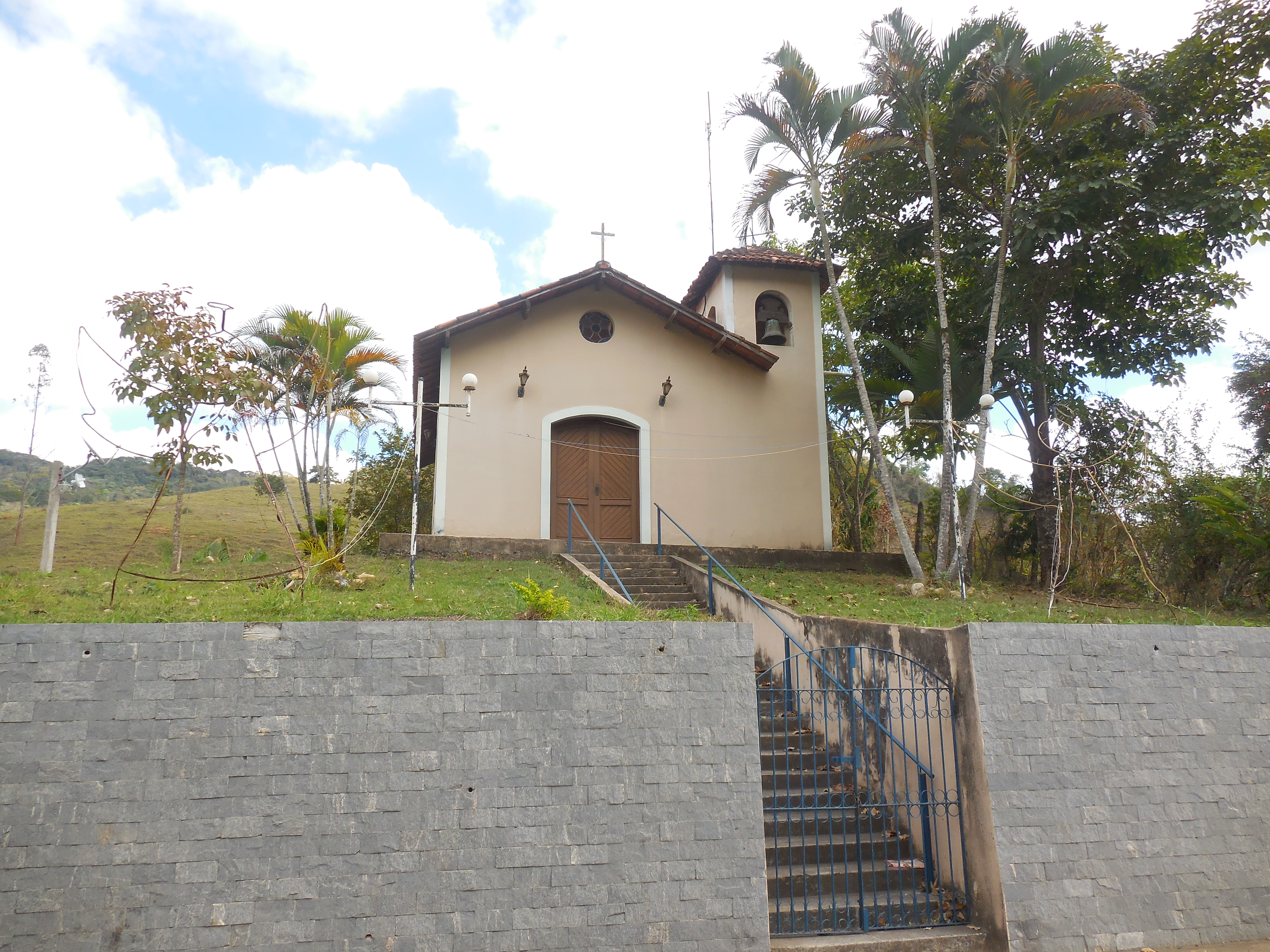 Saint Anthony chapel, in Marliéria, Minas Gerais, Brazil.